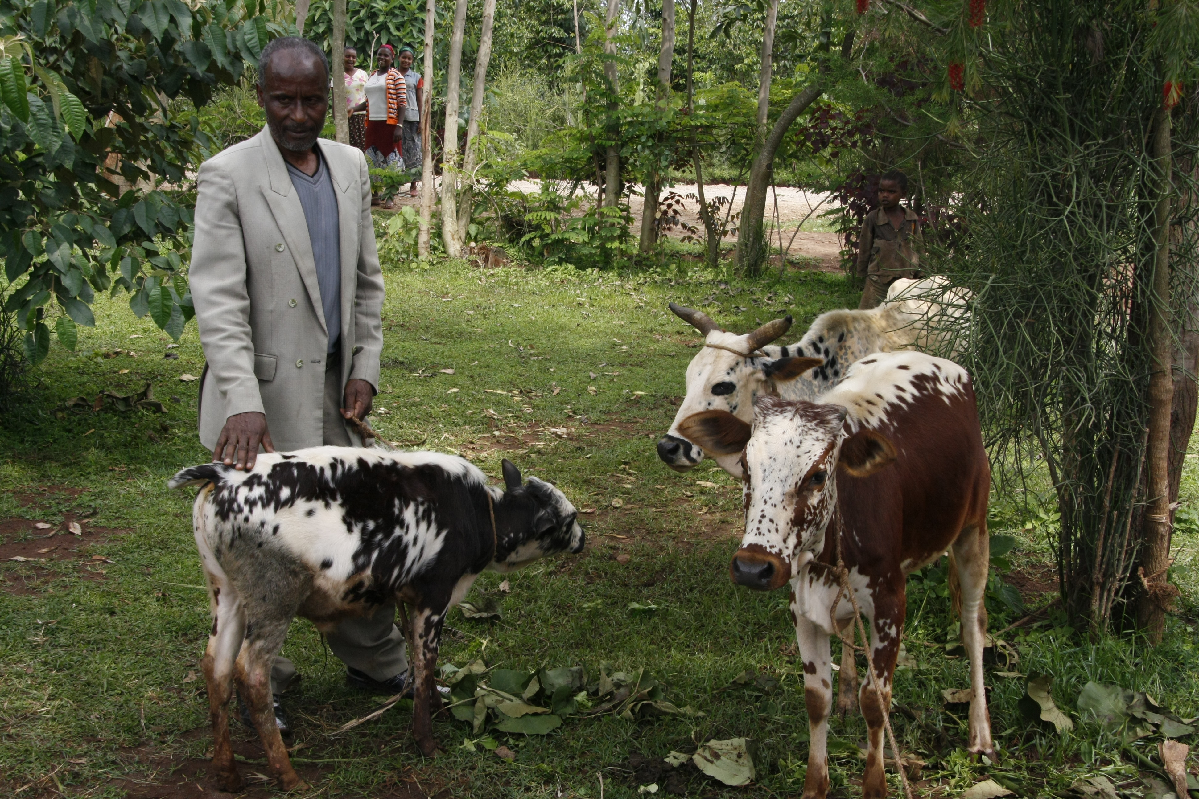 With the extra money he gets for his coffee – up nine-fold since the Ethiopia Commodity Exchange started – farmer Feleke Dukamo has been able to buy a few animals to provide milk and meat for his family. DFID supported two leading research institutes who were tasked with finding a solution to Ethiopia's inefficient food and commodity markets. The UK aid funded research recommended setting up a commodity exchange and helped to design the warehousing, logistics and payment systems that the exchange uses today. The exchange helps to boost exports and secure a better deal for farmers and consumers.